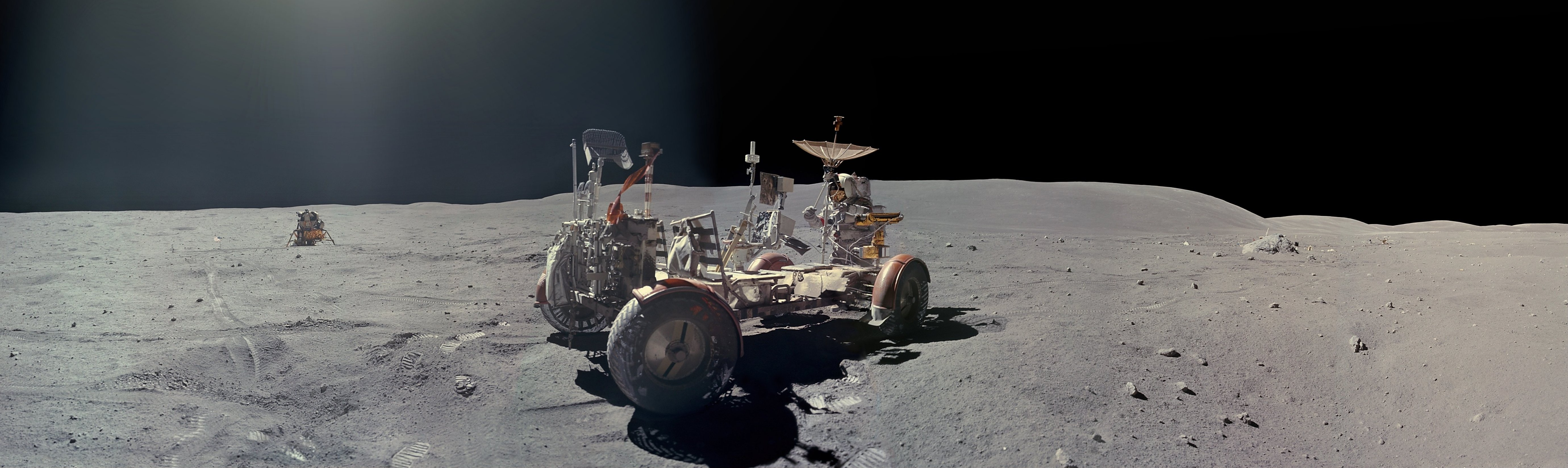 John Young is aligning the high-gain antenna of the LRV towards the Earth. Note the wire-mesh tires, back-lighted by the sun. The LM is in the background (A16-EVA3-Station 10).